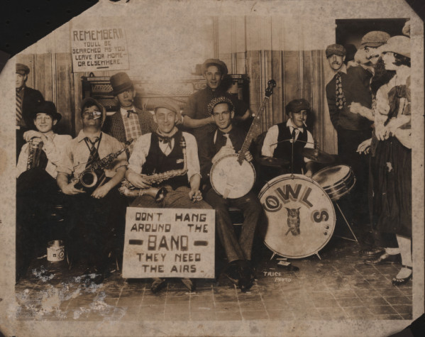 New Orleans Owls (jazz band) at Chess, Checkers and Whist Club, formerly Cosmopolitan Hotel. Musicians left to right: Mackie, R.; Rau, E.; Mackie, D.; Smith, M.; White, B.; Golpi, R.; Crumb, E. The band and spectators at right are costumed; possibly for costume party or Carnival. The description places this on the river side of the 100 block of Bourbon Street, an annex to the Cosmopolitan Hotel that was sold to the Chess Checkers & Whist Club in 1919 (not the more famous Chess Checkers and Whist Club Building on Canal Street at the corner of Baronne).